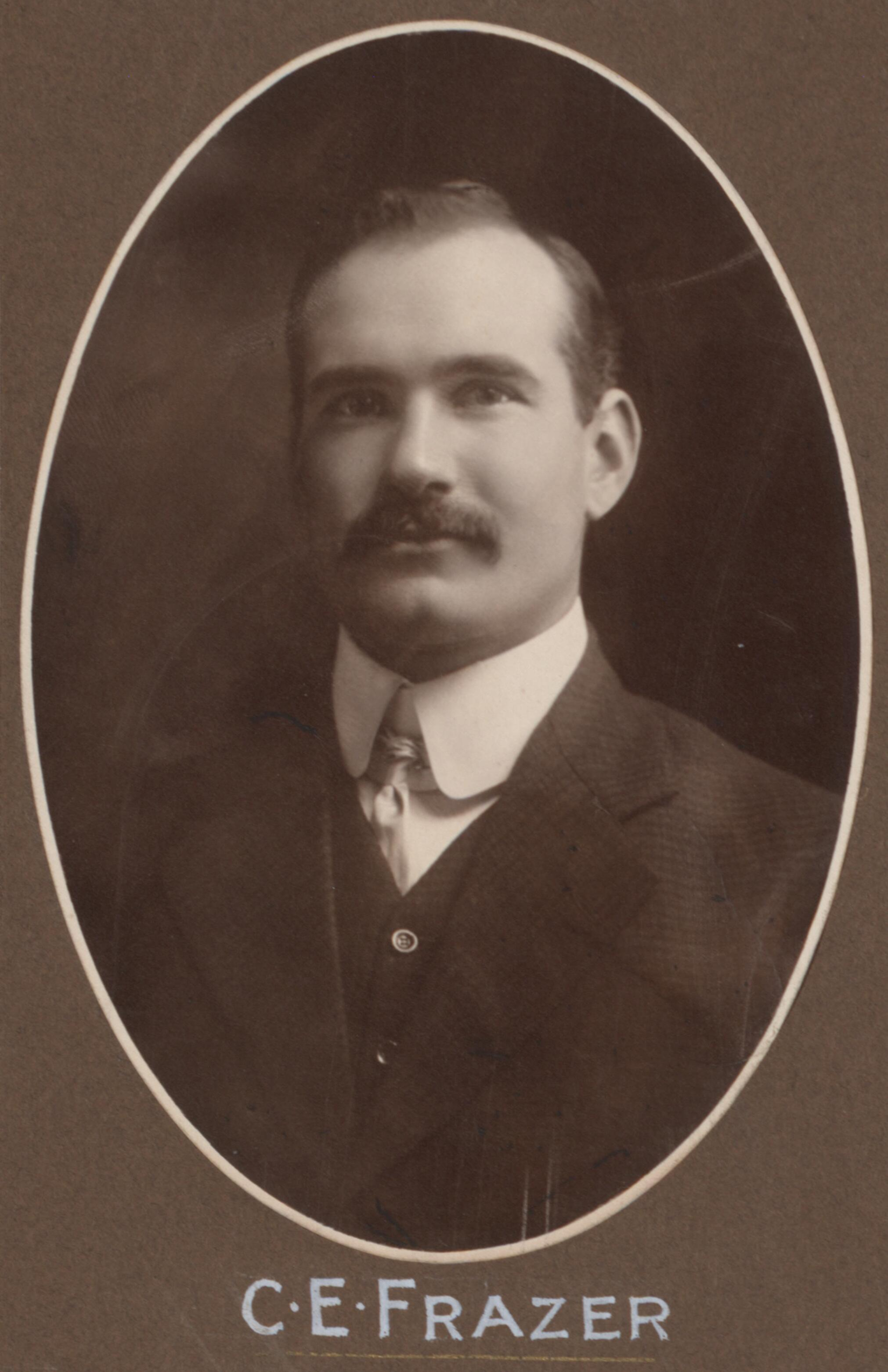 Australian politician Charles Frazer